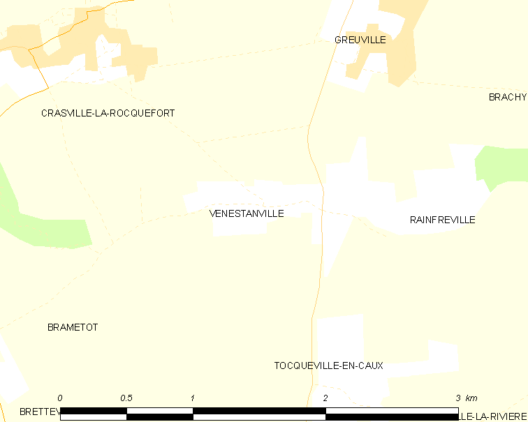 Map of French municipality Vénestanville